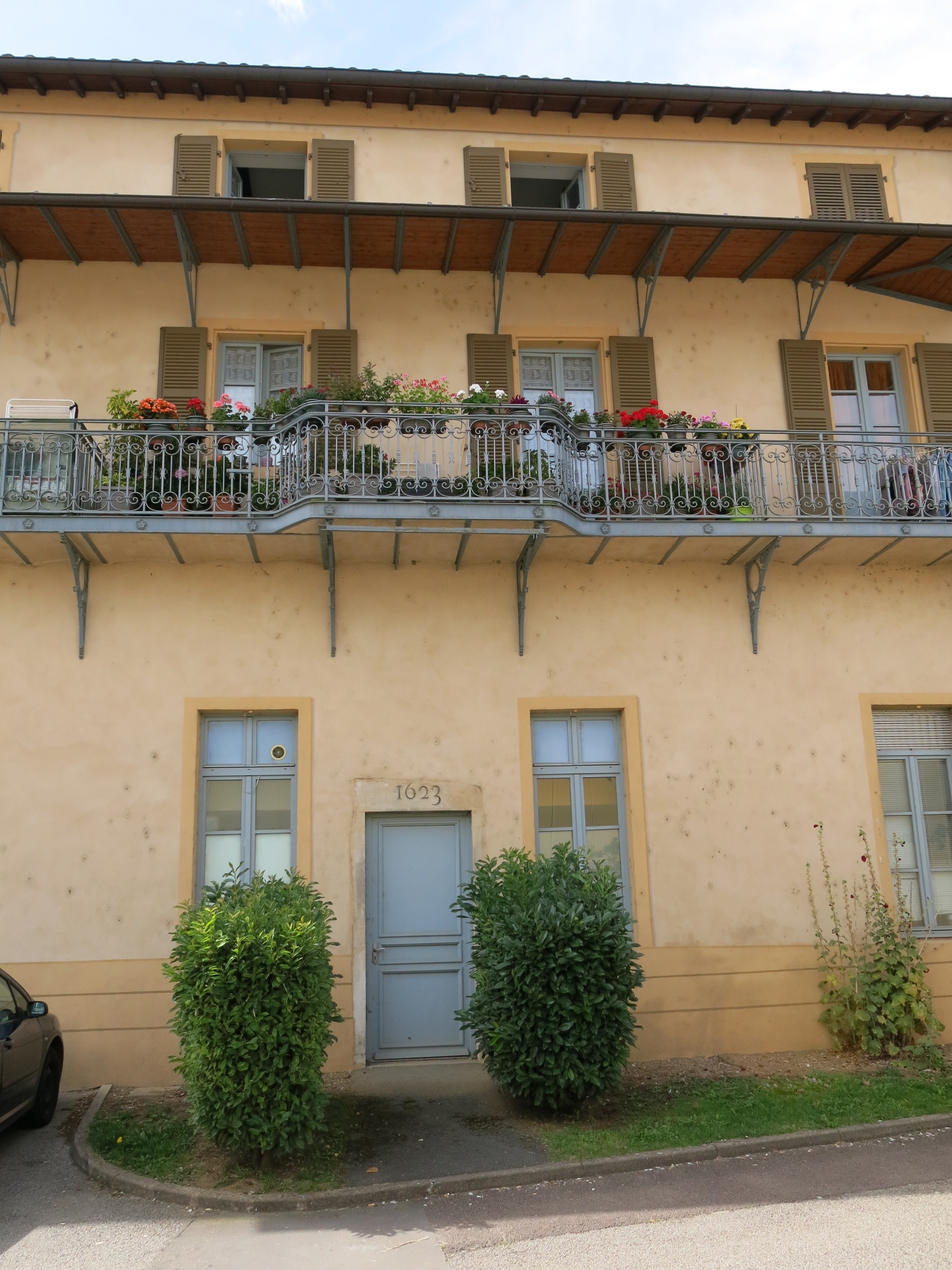 Eastern wall of the convent of Recollets in Tournus (Saône-et-Loire, France).